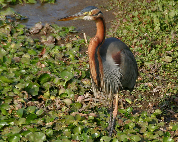 Ardea purpurea at/ near Hodal, Faridabad, Haryana, India.